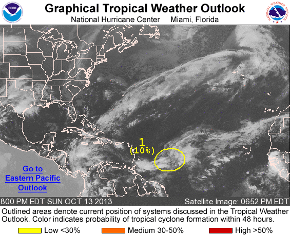 Satellite Image North Atlantic 2013 - Oct - 13 800 PM